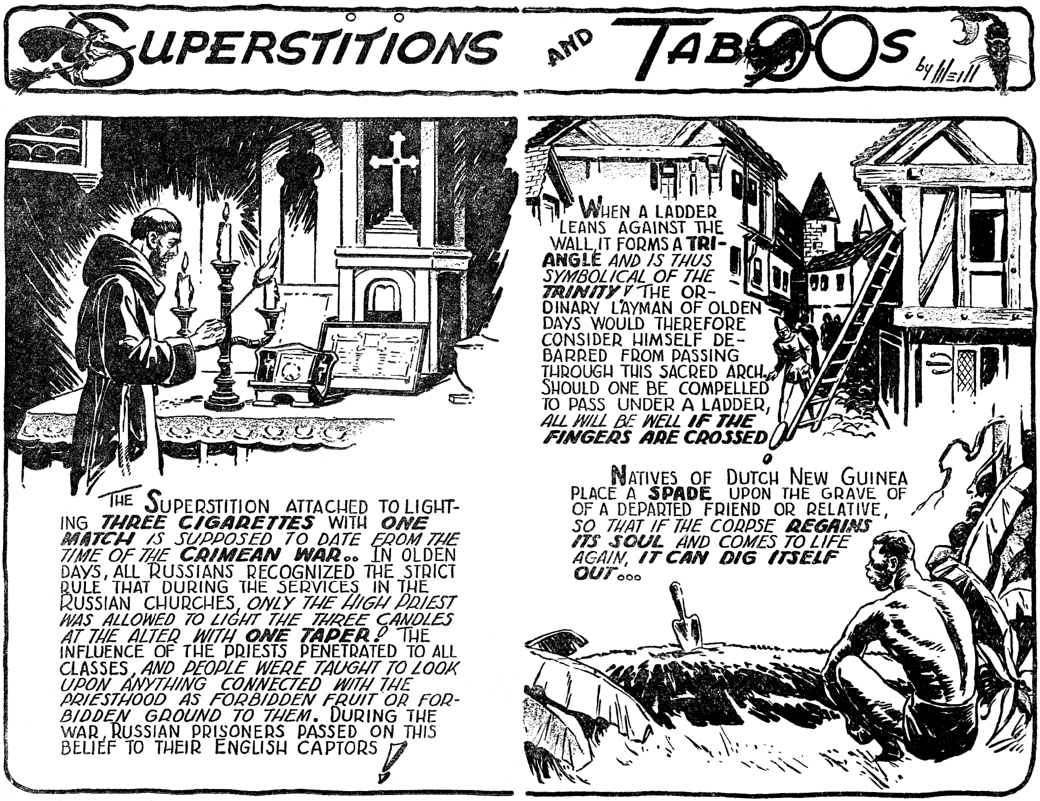 "Superstitions and Taboos" article from the pulp magazine Weird Tales (November 1941, vol. 36, no. 2, pages 43 & 44).